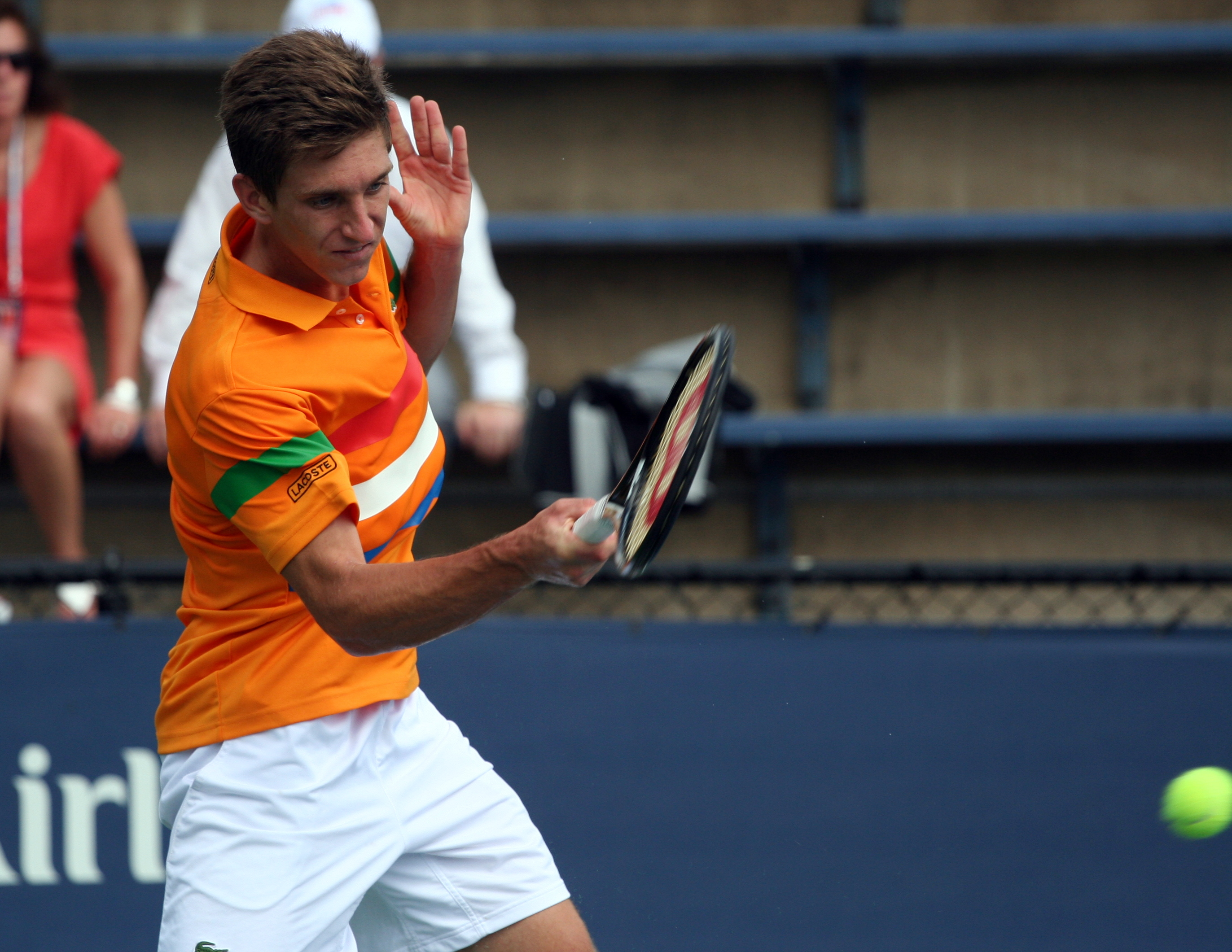 U.S. Open Juniors Saturday, Sept. 8, 2012